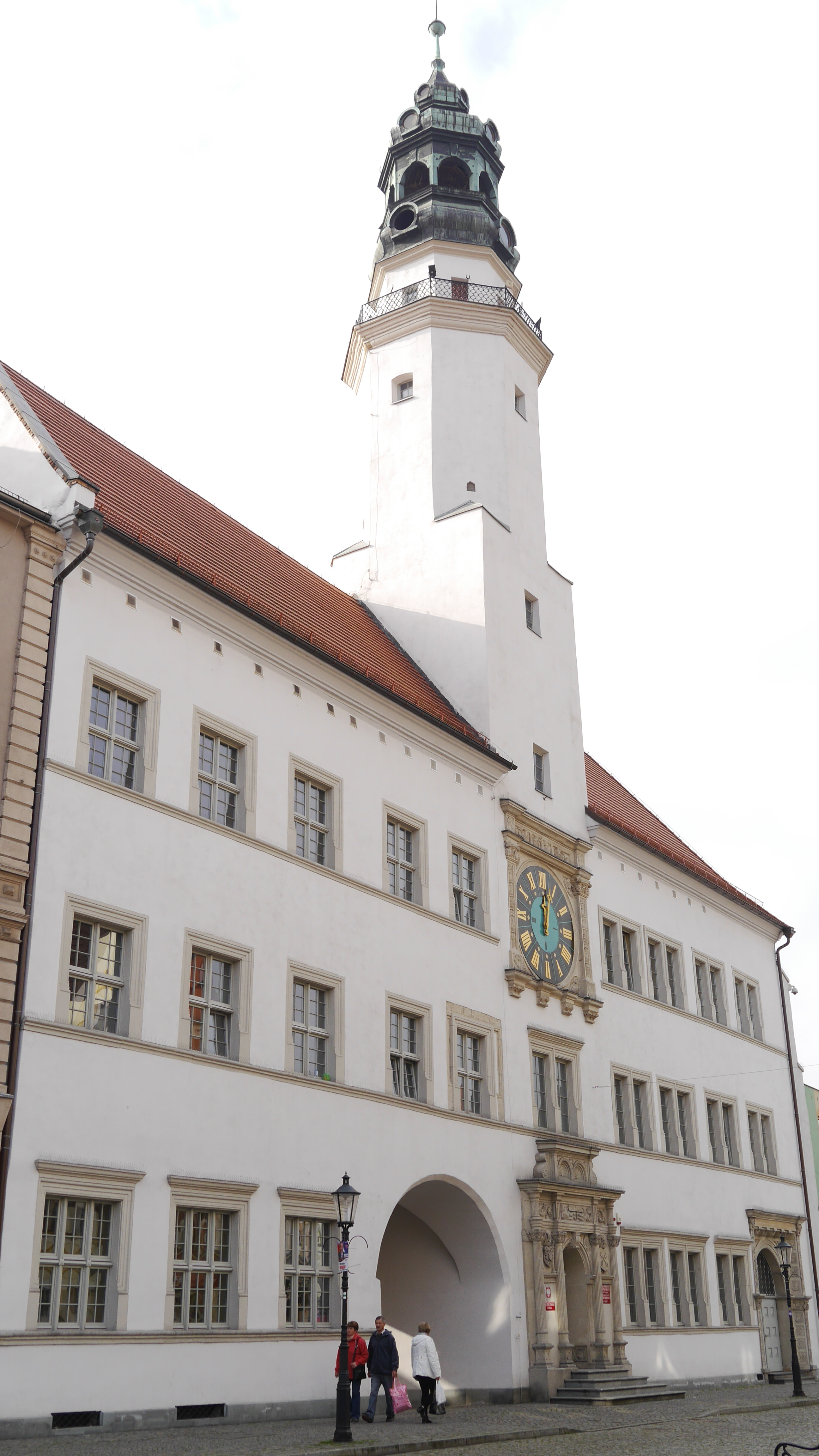 town hall in Lubań